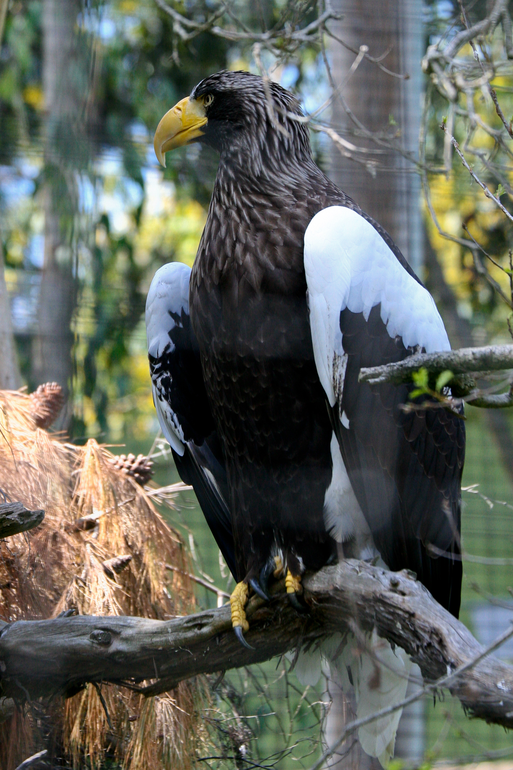 Steller's Sea Eagle in a large aviary at San Diego Zoo, USA.